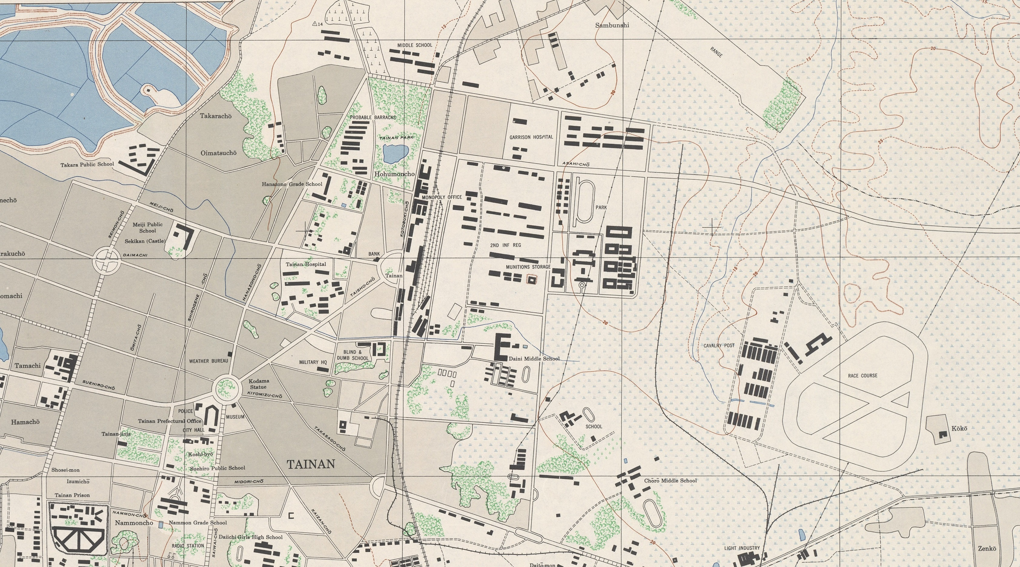 Map of Tainan racecourse. A part of Map(1945)[1]